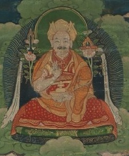 The Third Changkya, Rolpai Dorje b.1717 - d.1786